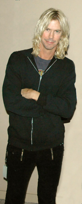 Duff McKagan of Guns N'Roses